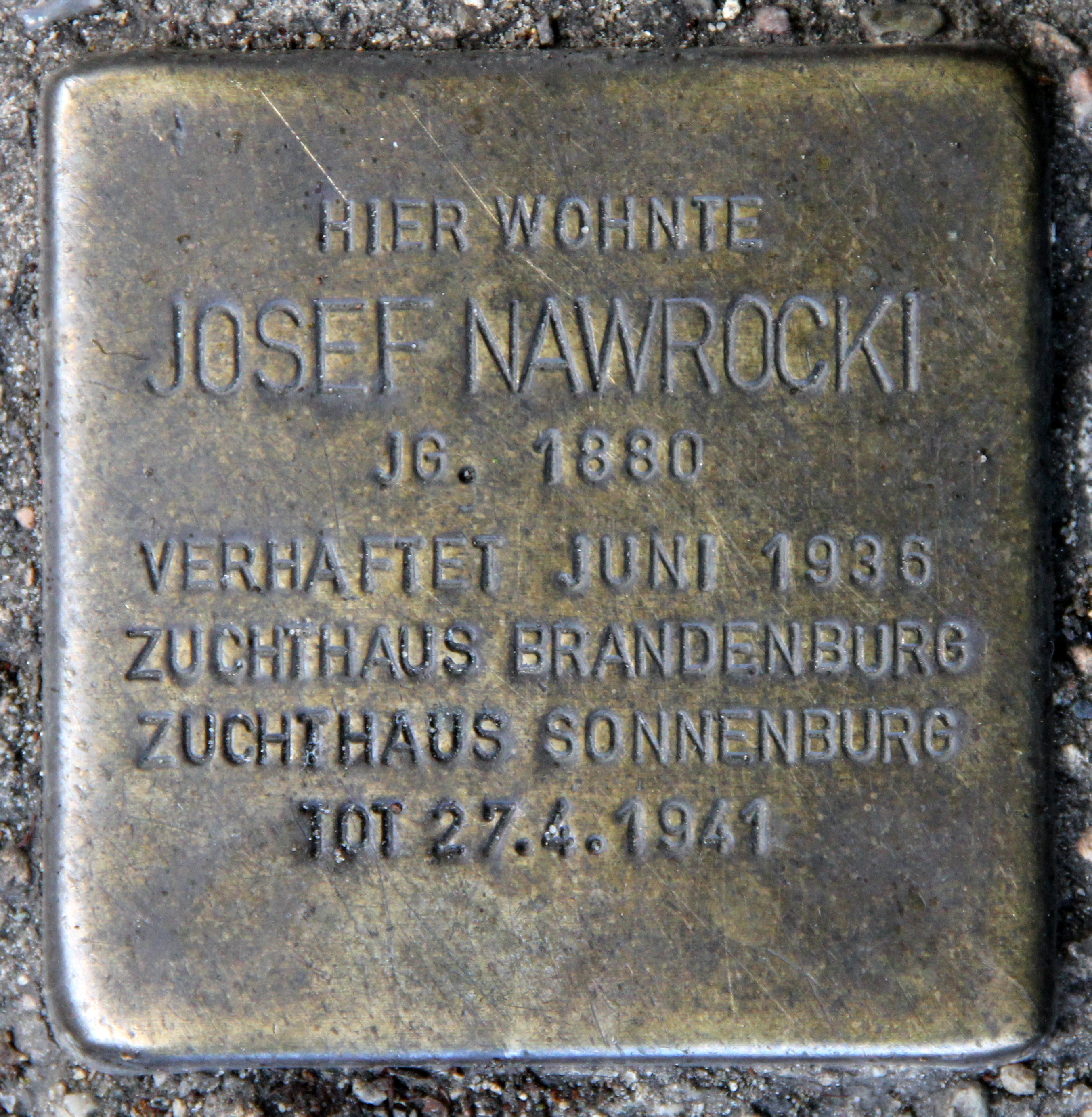 "Stolperstein" (stumbling block), Josef Nawrocki, Straßburger Straße 24, Berlin-Prenzlauer Berg, Germany